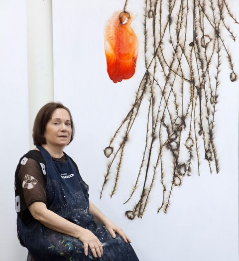 Portrait of Mira Lehr